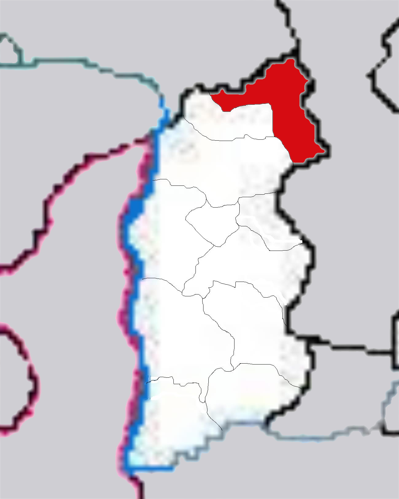 Maps of Shanxi Province of China